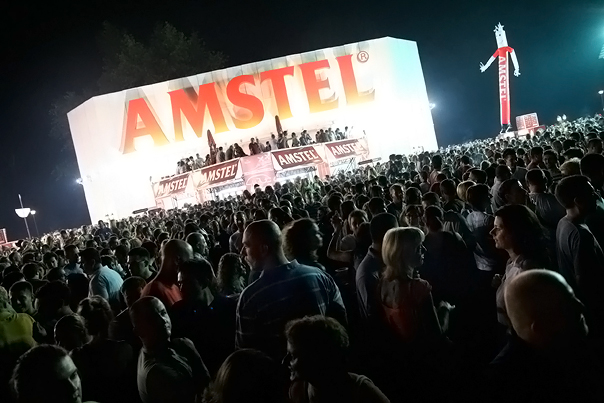 Belgrade Beer Fest 2009 (Amstel), Serbia Festival de la bière (Amstel), Serbie